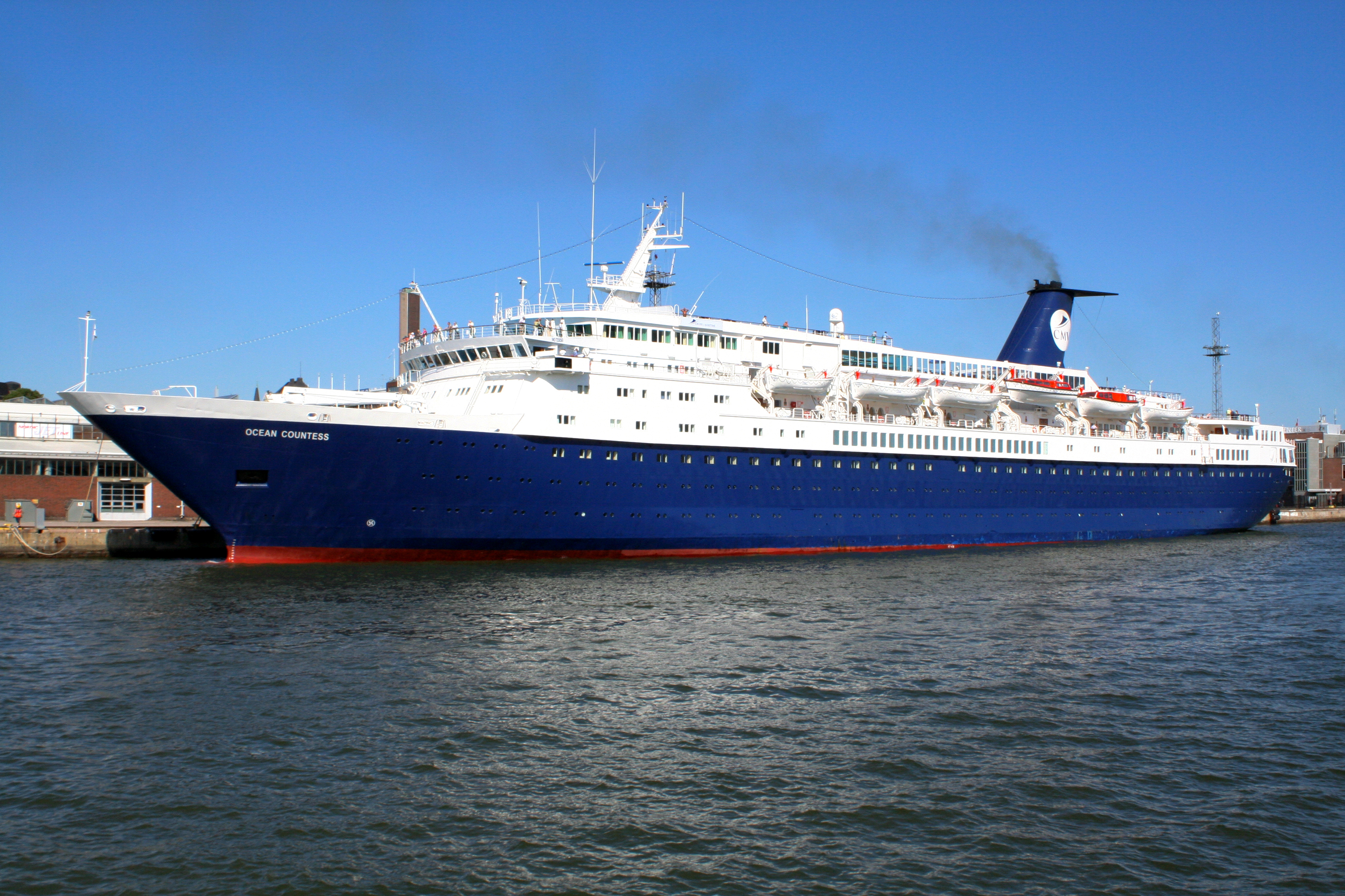 Cruise and Maritime Voyages' cruise ship MS Ocean Countess at Helsinki South Harbour.